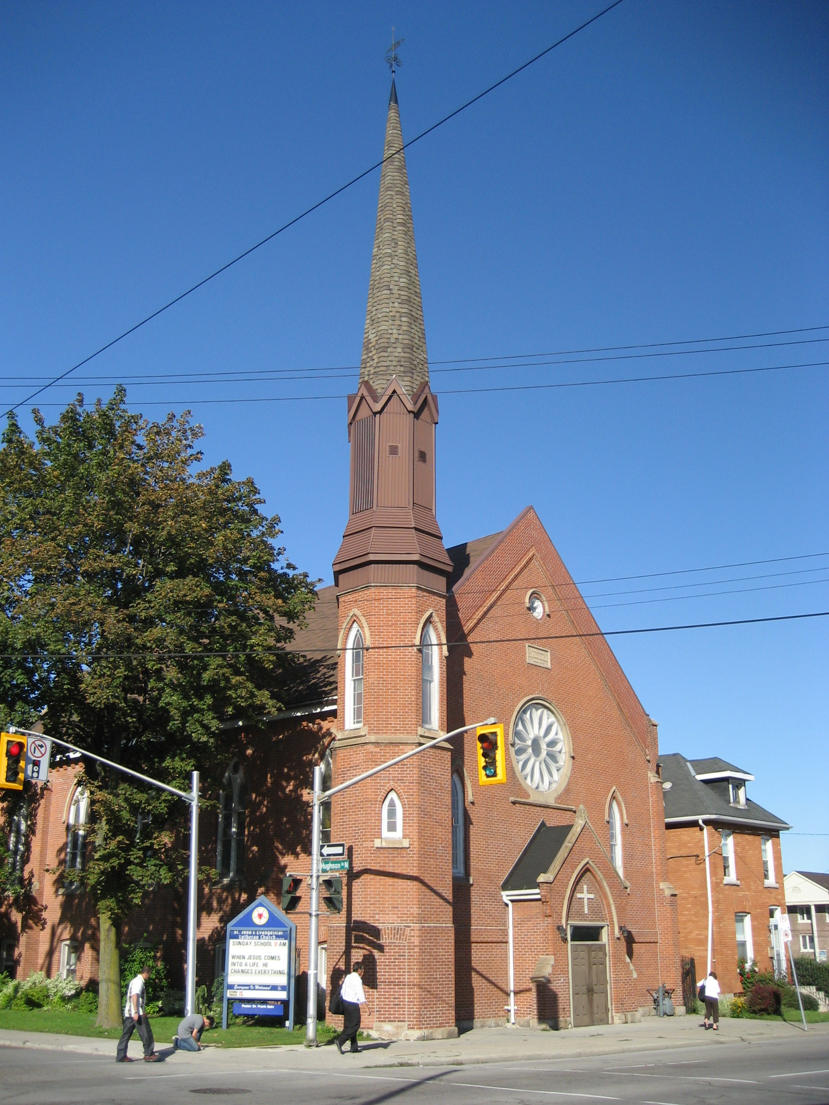 St. John's Evangelical Lutheran Church, Wilson & Hughson Streets, Hamilton, Canada.